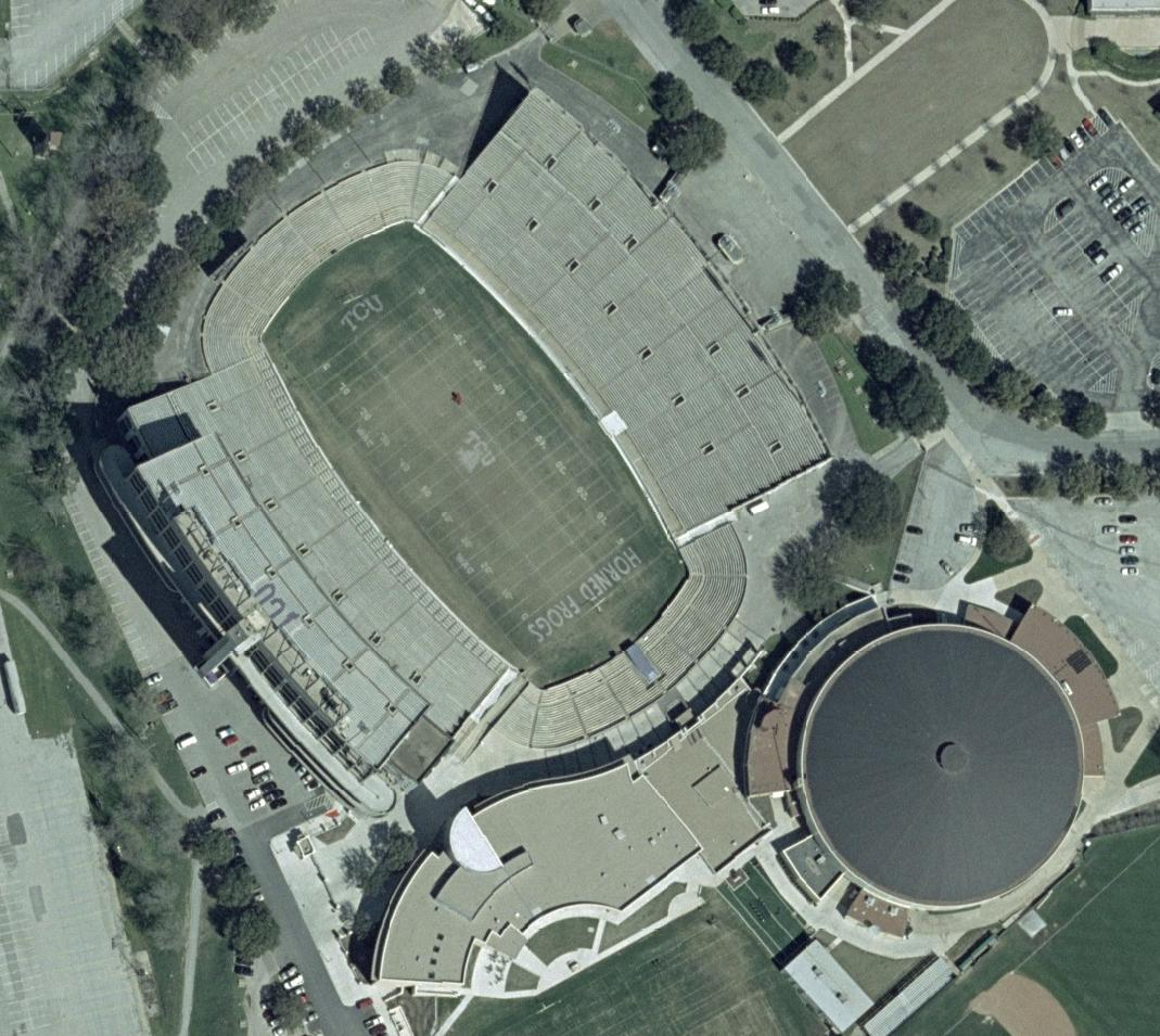 Amon G. Carter Stadium at TCU in Ft. Worth, Texas satellite image taken February 2001.